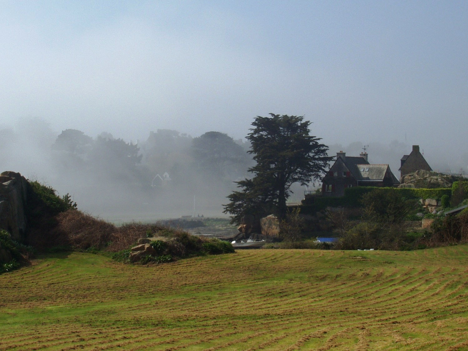 Île de Bréhat, Bretagne (France)